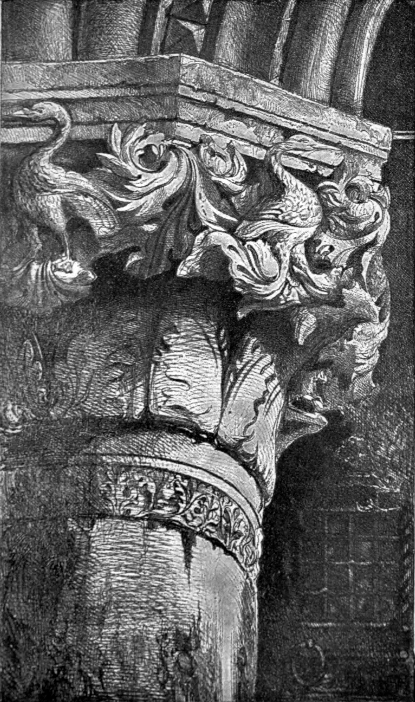 Plates from the Seven Lamps of Architecture - "Capital from the Lower Arcade of the Doge's Palace, Venice"